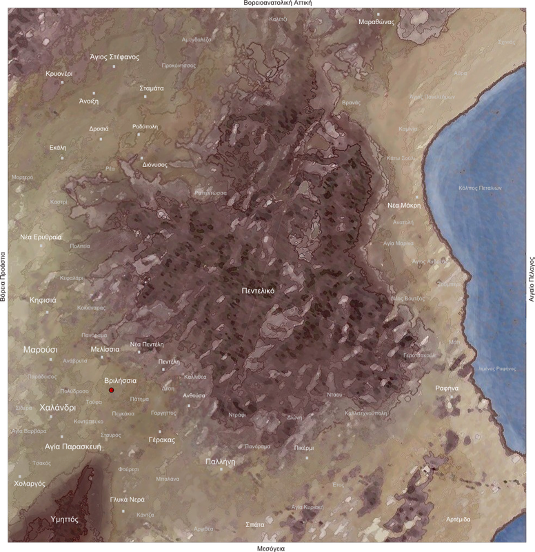 map-vrilissia